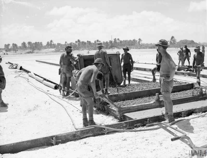 A group of Royal Engineers construct the airfield runway on Christmas Island during construction of the British military base which provided the headquarters of the nuclear test programme on Christmas Island, November 1956. An auxiliary airstrip was already in use and a 7000 foot runway suitable for bombers had been completed.